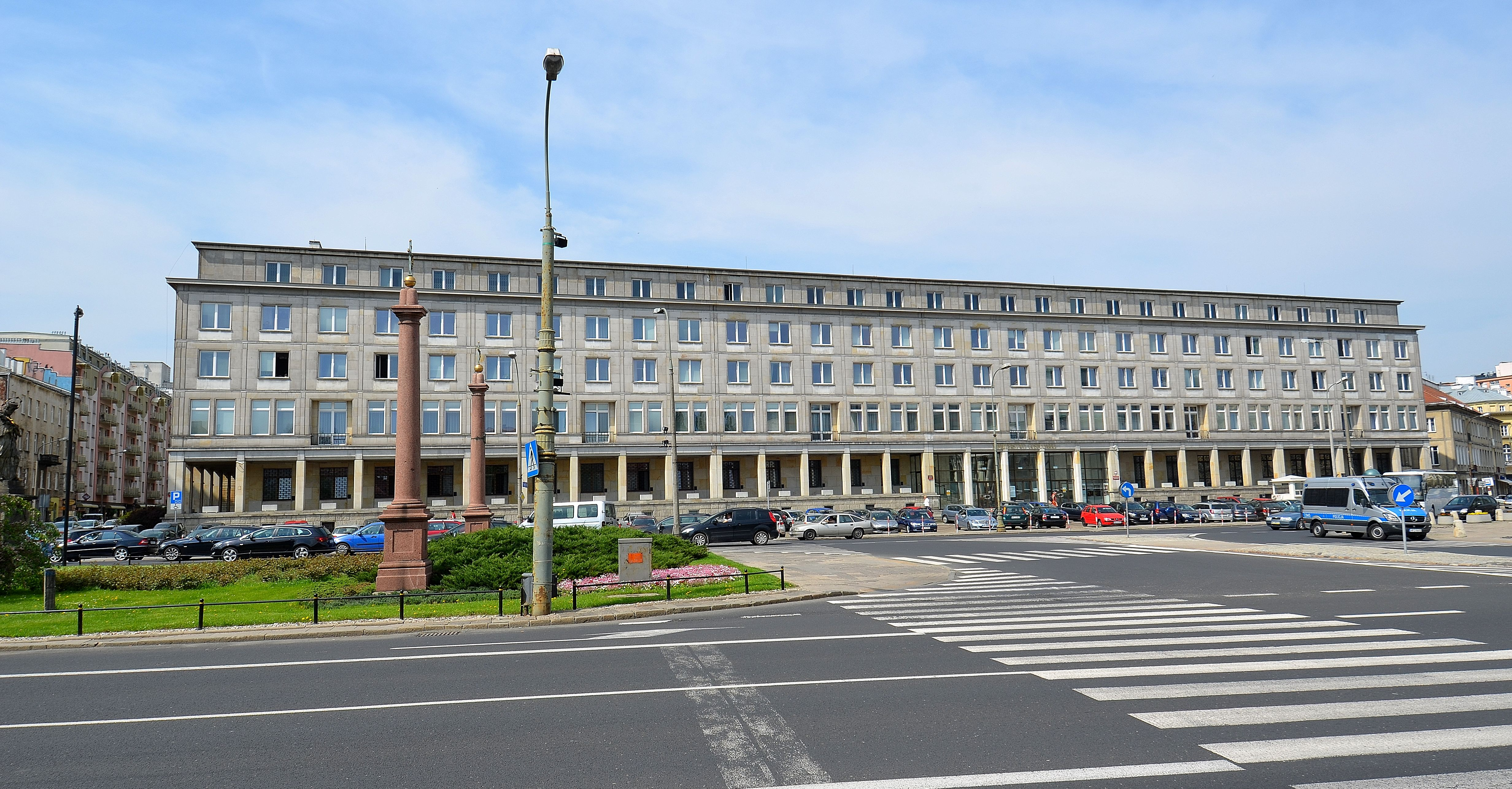 Building of the State Committee for Economic Planning (currently Ministry of Economy), 3/5 Three Crosses Square in Warsaw